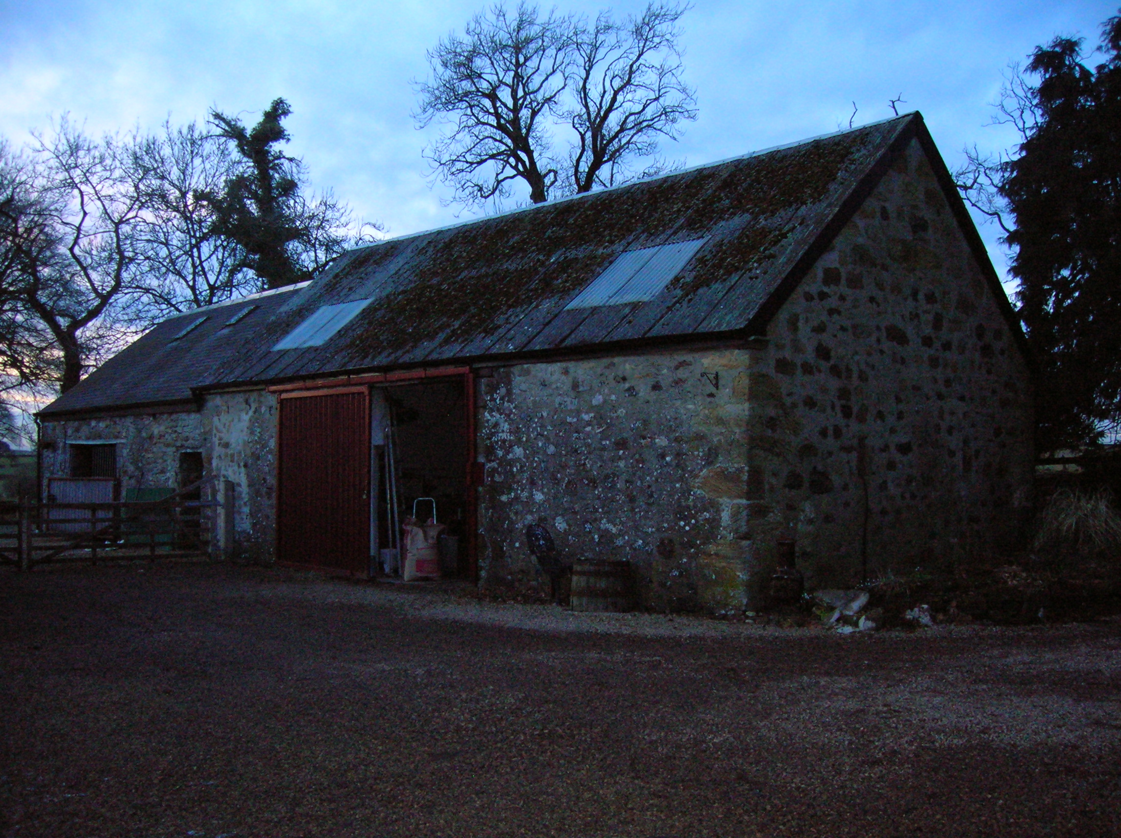 Bonshaw farm byre, North Ayrshire, Scotland